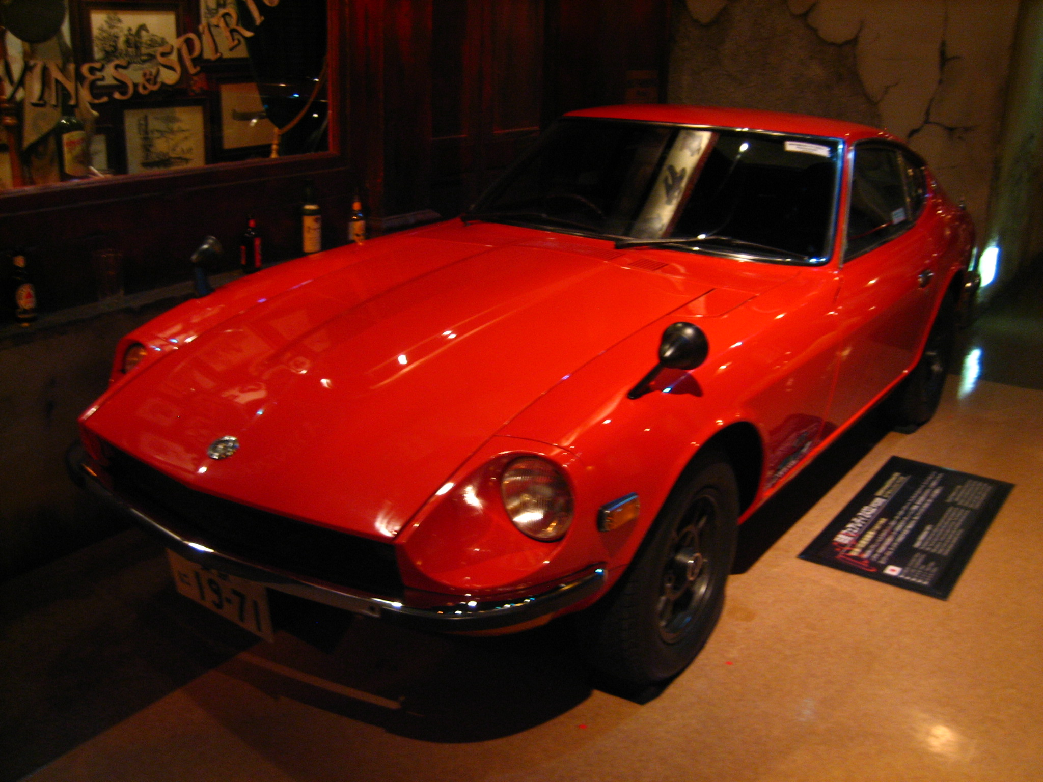 1971 Nissan Fairlady Z 432 PS30 - MEGAWEB History Garage